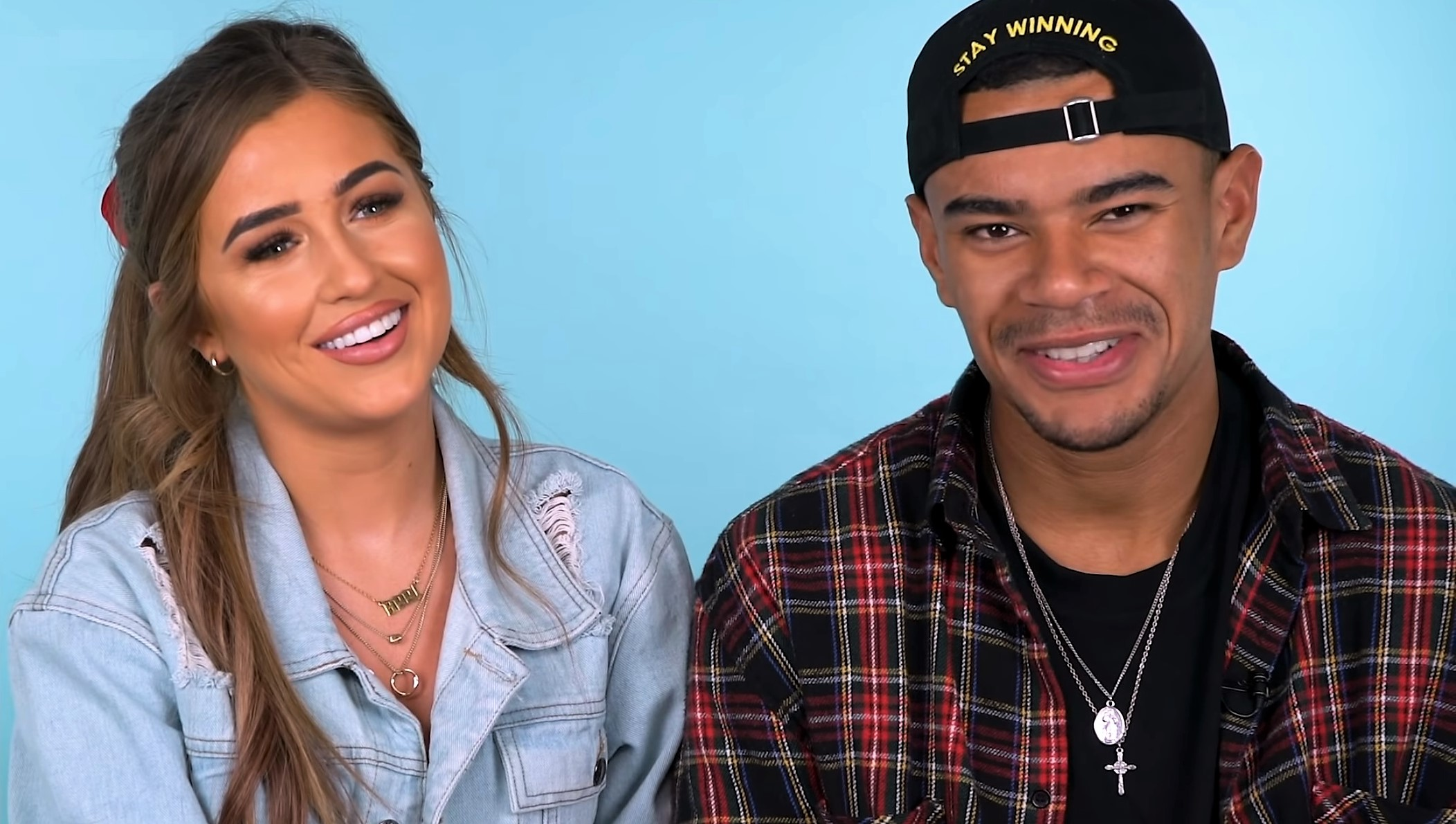 Ex-Islanders Rosie, Wes and Georgia's opinions on week 1 of Love Island 2019 | Cosmopolitan UK In our new weekly franchise, Cosmopolitan UK gets ex-Islanders to give their thoughts and first impressions on this week’s Love Island. Which Love Island 2019 contestant’s been mugged off? Who’s going to be joining the Do Bits Society? And how does this year’s series compare to their time in the villa? This week, Georgia Steel, Wes Nelson and Rosie Williams discuss the best moments during week 1 of the new series, and it gets juicy. Reaaaal juicy.